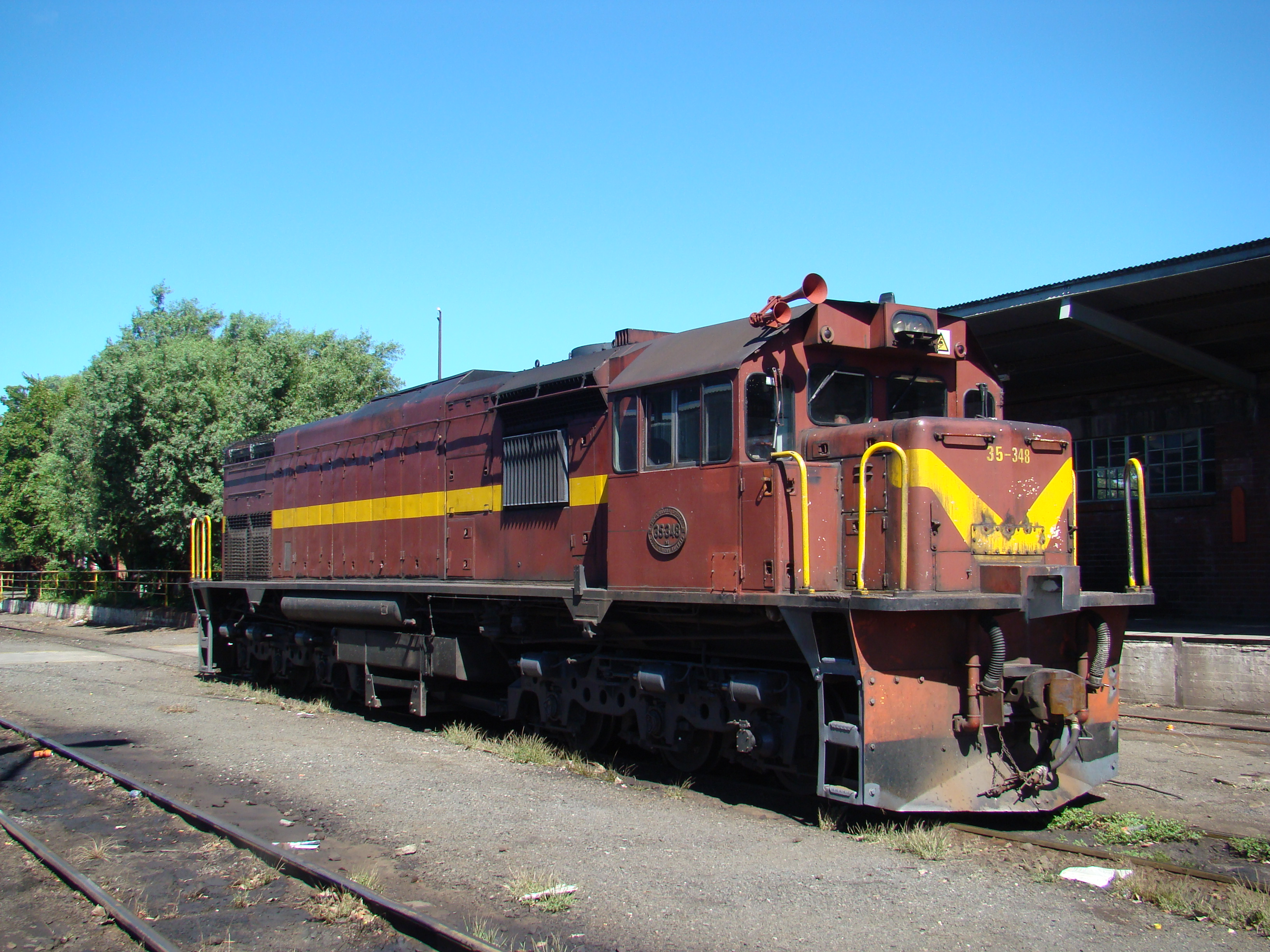 35-348 is one of the final EMD-built Class 35s in original SAR maroon livery with yellow chevrons, Beaconsfield, Kimberley 27th January 2010.